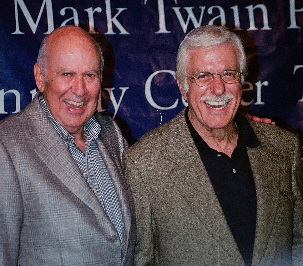 From Wash D.C. Kennedy center Mark Twain awards 2000